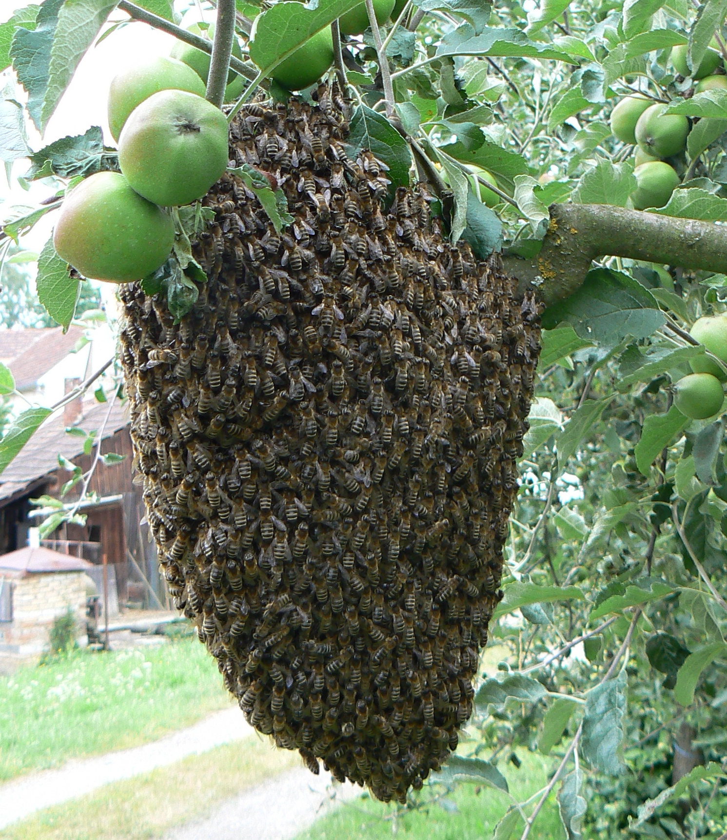 Apis mellifera swarm in Tachov District in Czech Republic